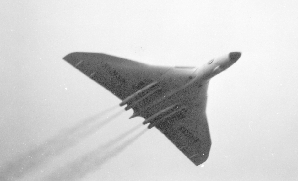 The first Avro Vulcan B.2, XH533 at the 1958 SBAC Show, Farnborough